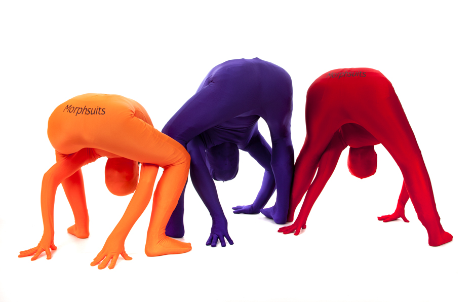 Photoshoot.